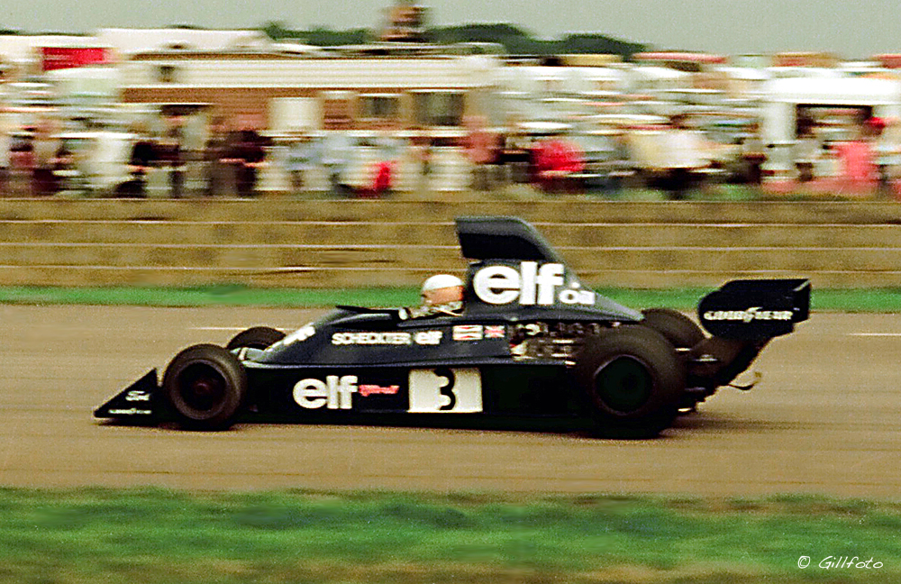 John Player Grand Prix 1975